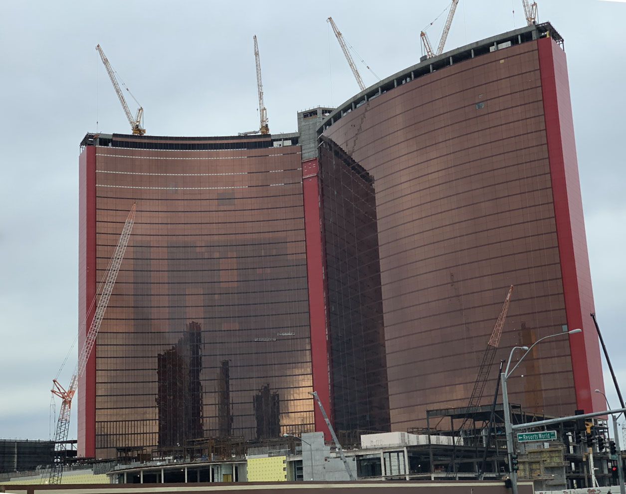 Photo showing Resorts World building under construction in Las Vegas in December 2019.